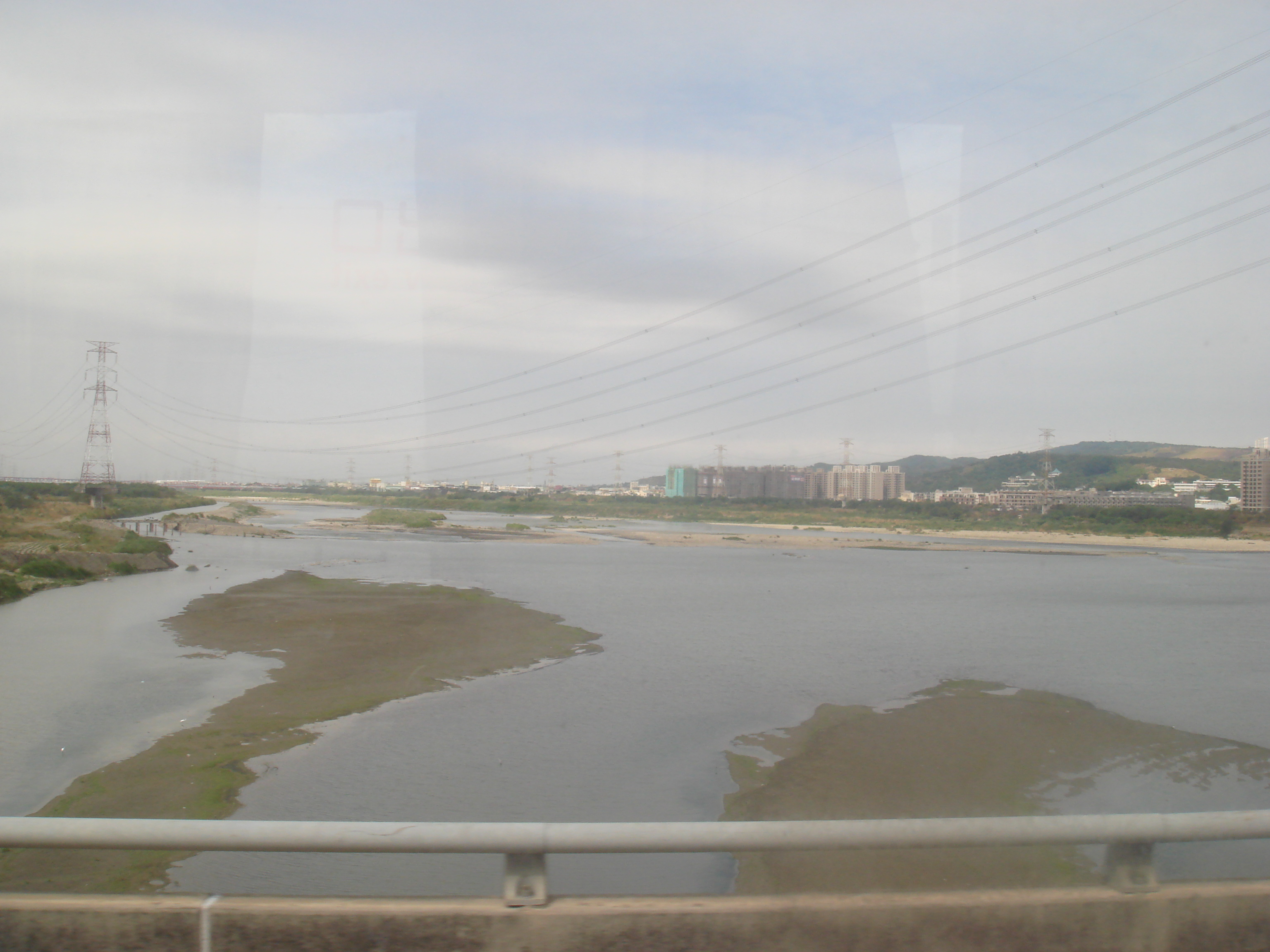 seeing riverbed from the highway upside, at Wuri nearby